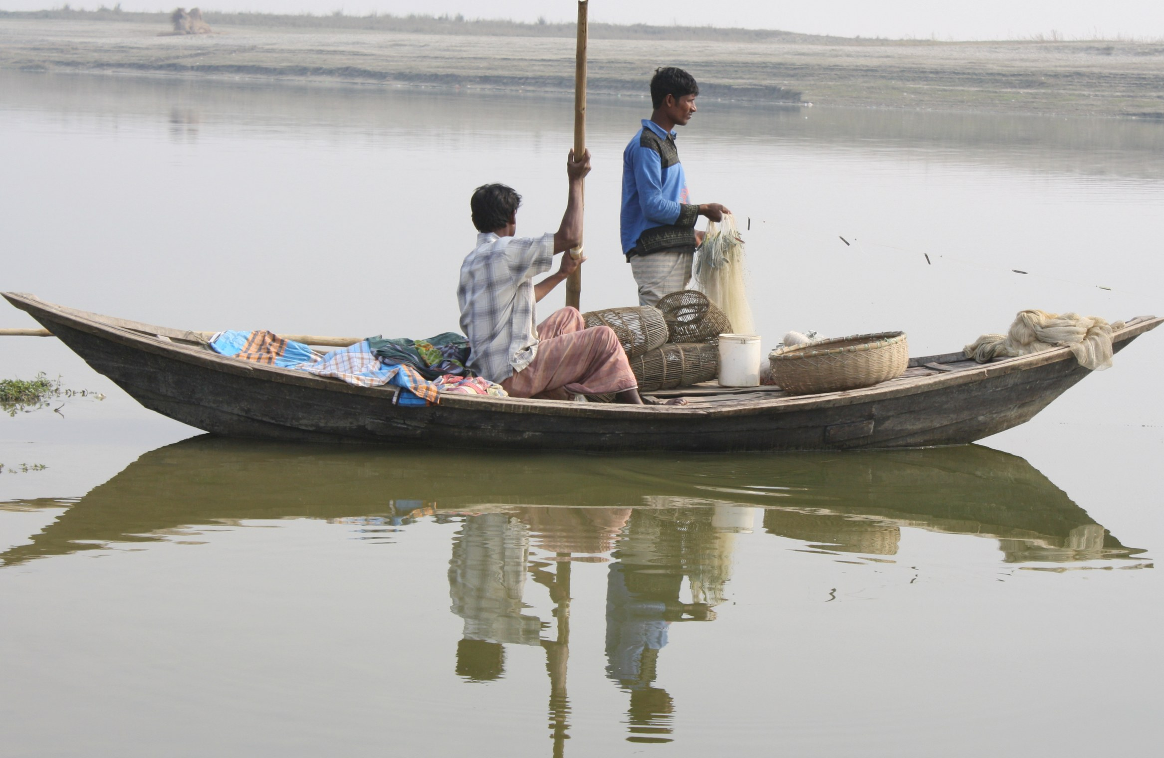 শীতের পদ্মায় মাছ ধরা